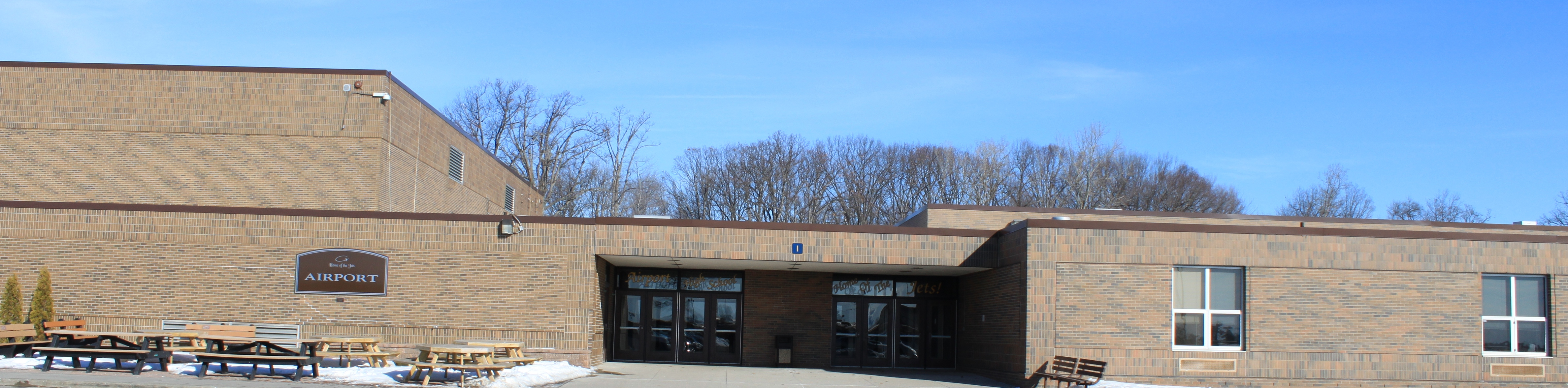 Airport Senior High School, 11330 Grafton, Carleton, Michigan